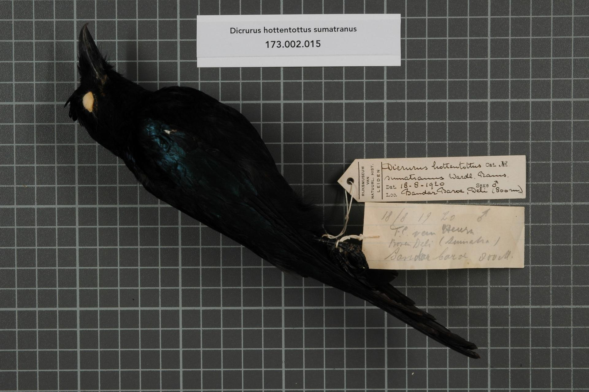 Dicrurus hottentottus sumatranus R.G.W. Ramsay, 1880